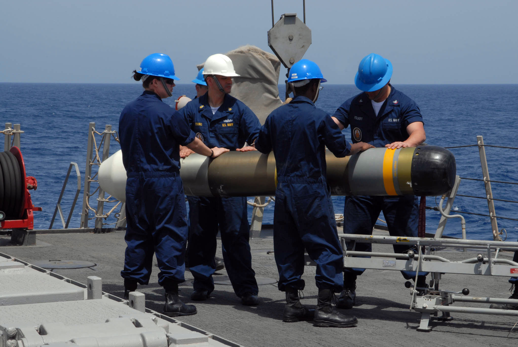 080330-N-0924R-029 RED SEA (March 30, 2008) Sailors assigned to the guided-missile destroyer USS Ross (DDG 71) load torpedoes into the torpedo tubes on the ship's aft missile deck. Ross is one of six vessels assigned to the Nassau Expeditionary Strike Group deployed to the U.S. 5th Fleet area of responsibility supporting maritime security operations. U.S. Navy photo by Mass Communication Specialist Seaman Cory Rose (Released)